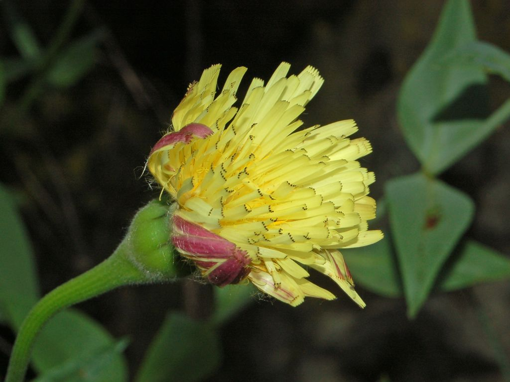 Urospermum dalechampii